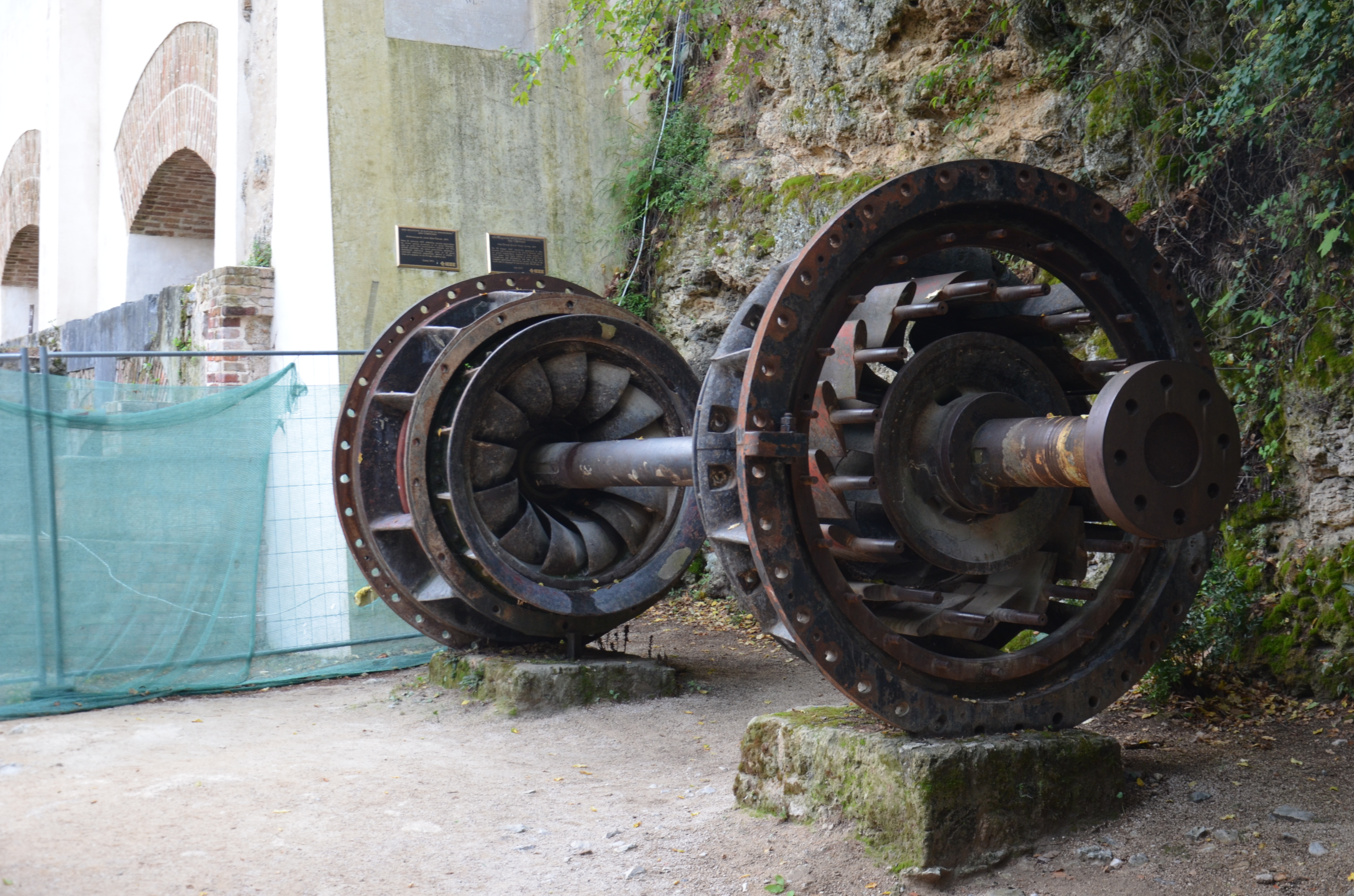 Water turbine Jaruga I, Skradinski buk